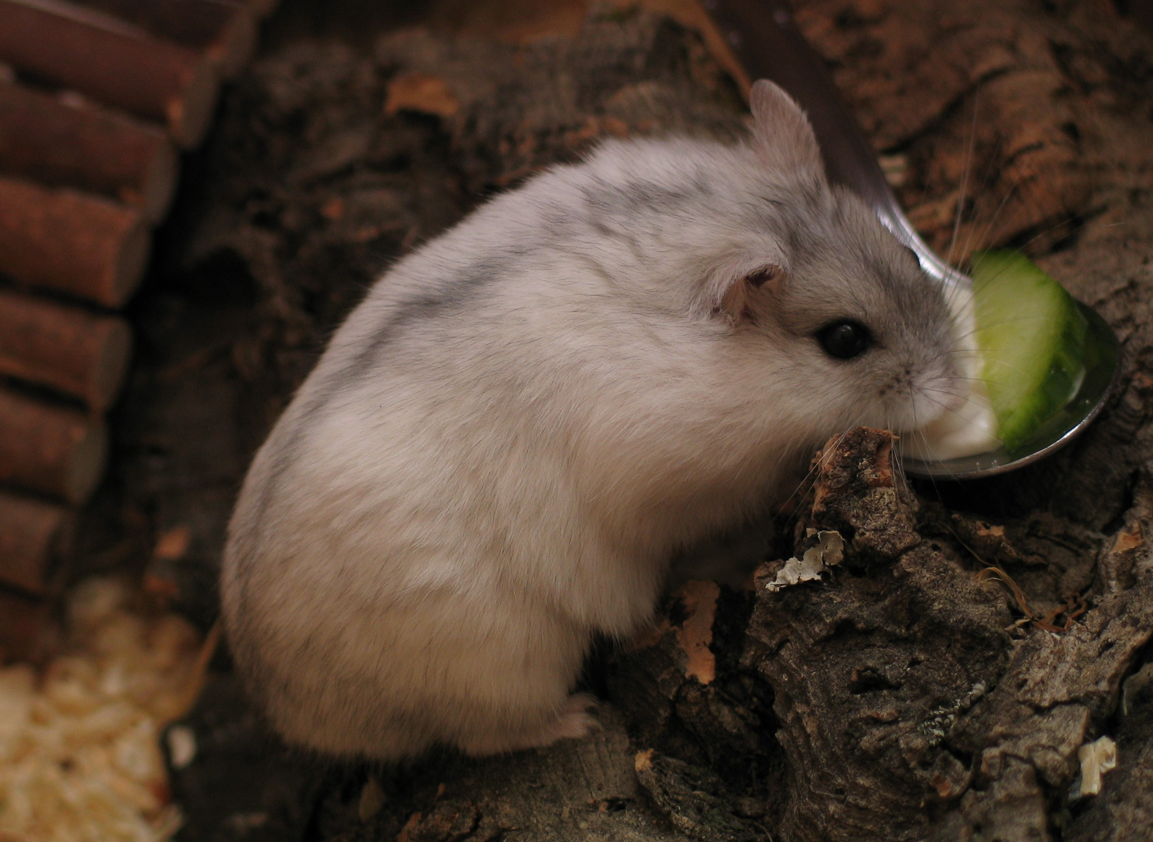 Dwarf Winter White Russian Hamster